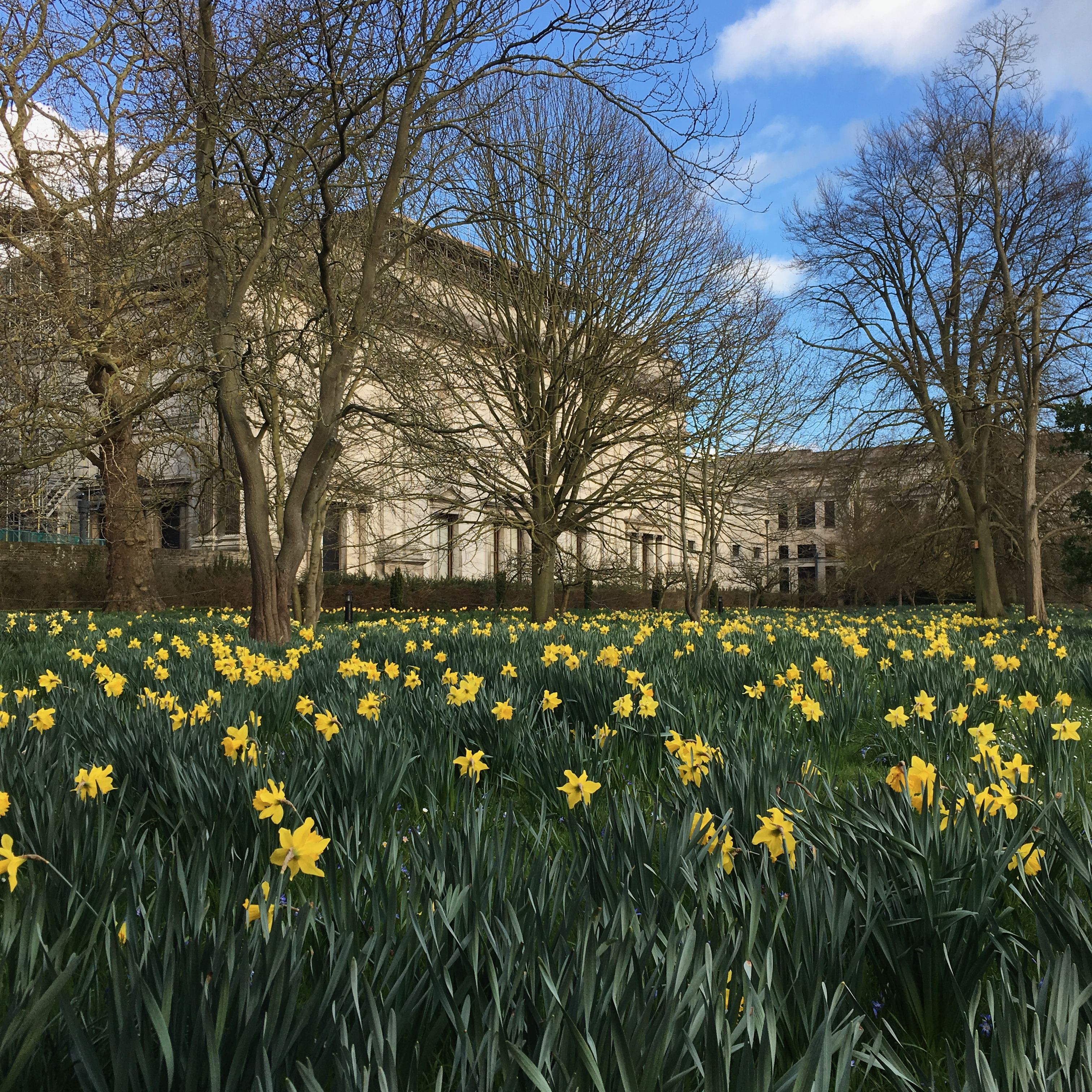 Peterhouse Deer Park in Spring.